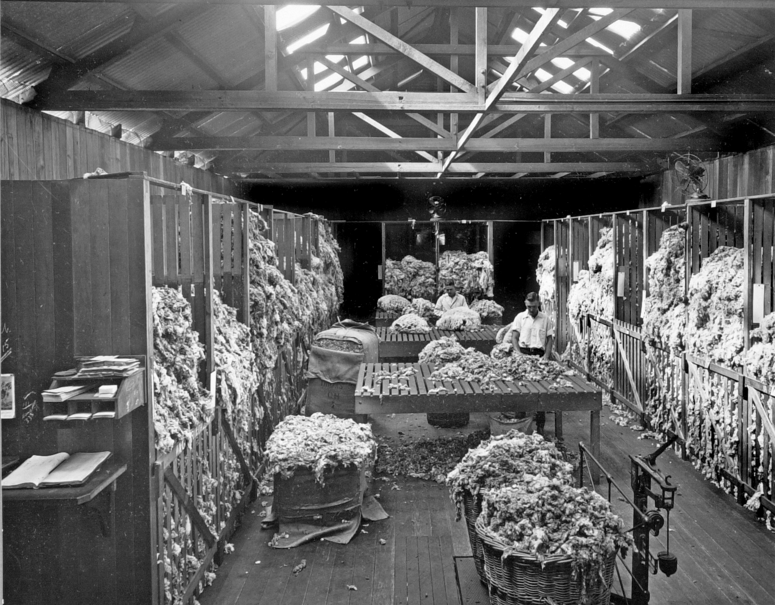 Wool classing room, c1926